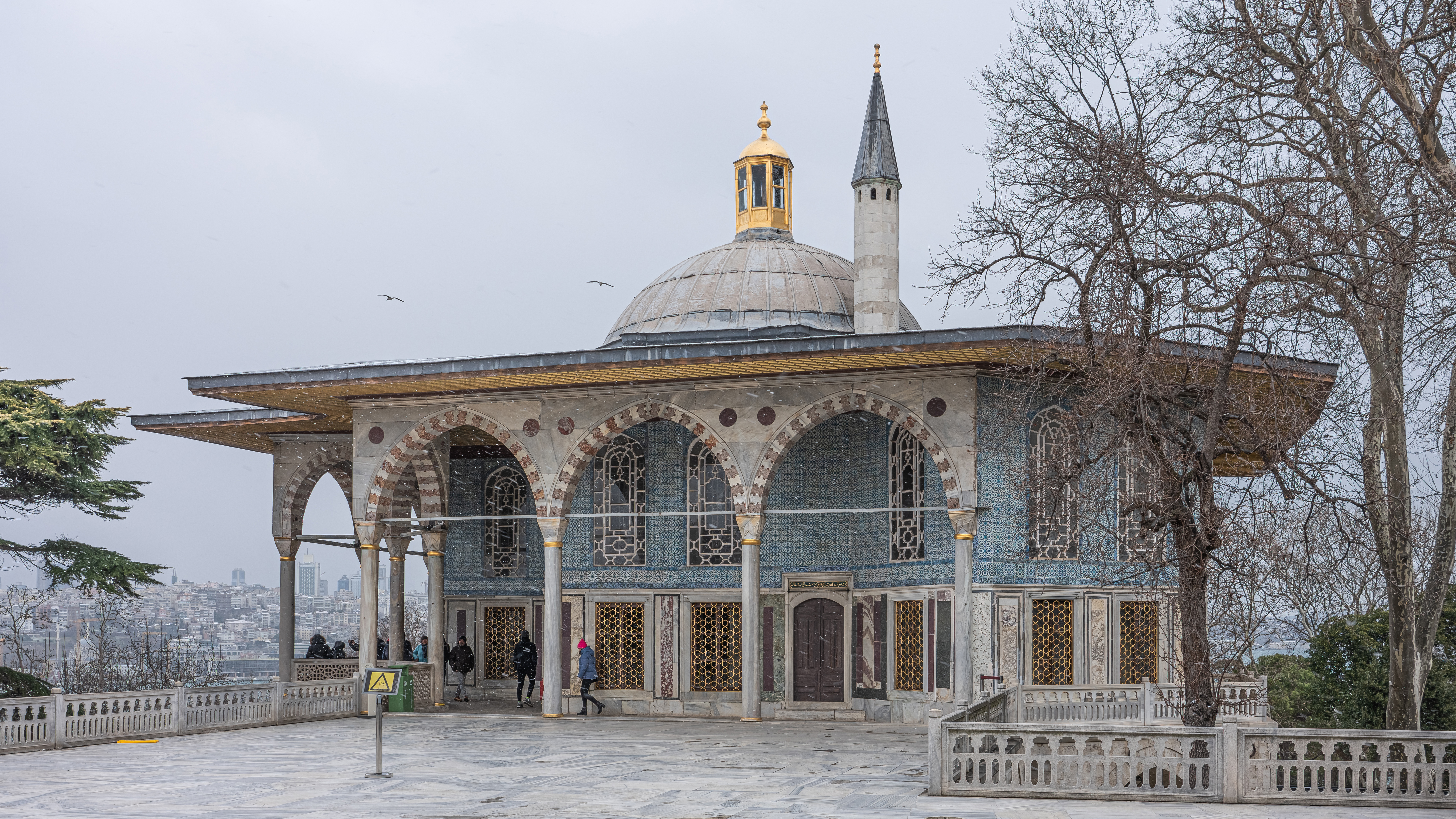 Baghdad Kiosk of Topkapı Palace in Istanbul, Turkey